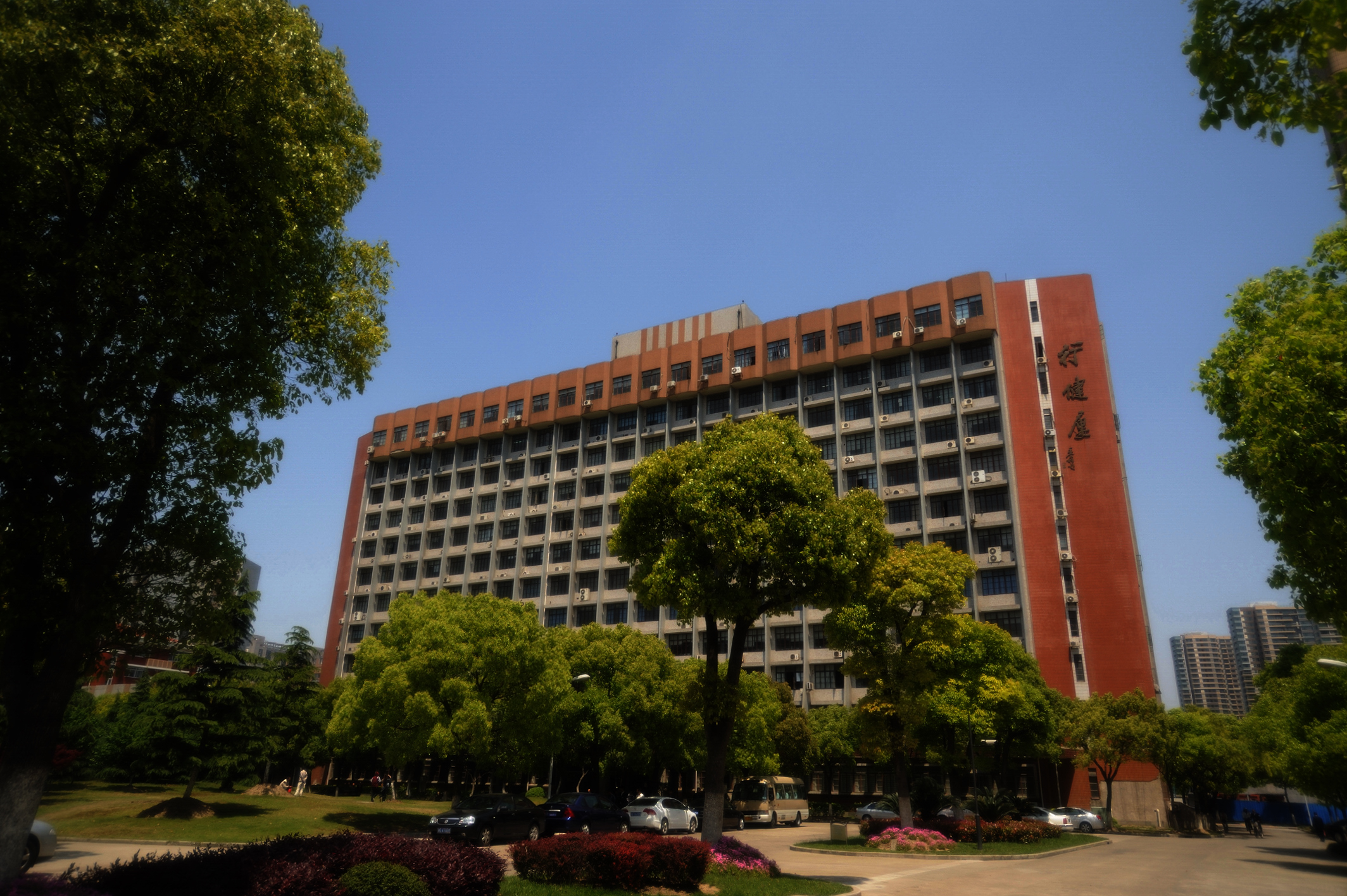 xing jian building in shanghai university